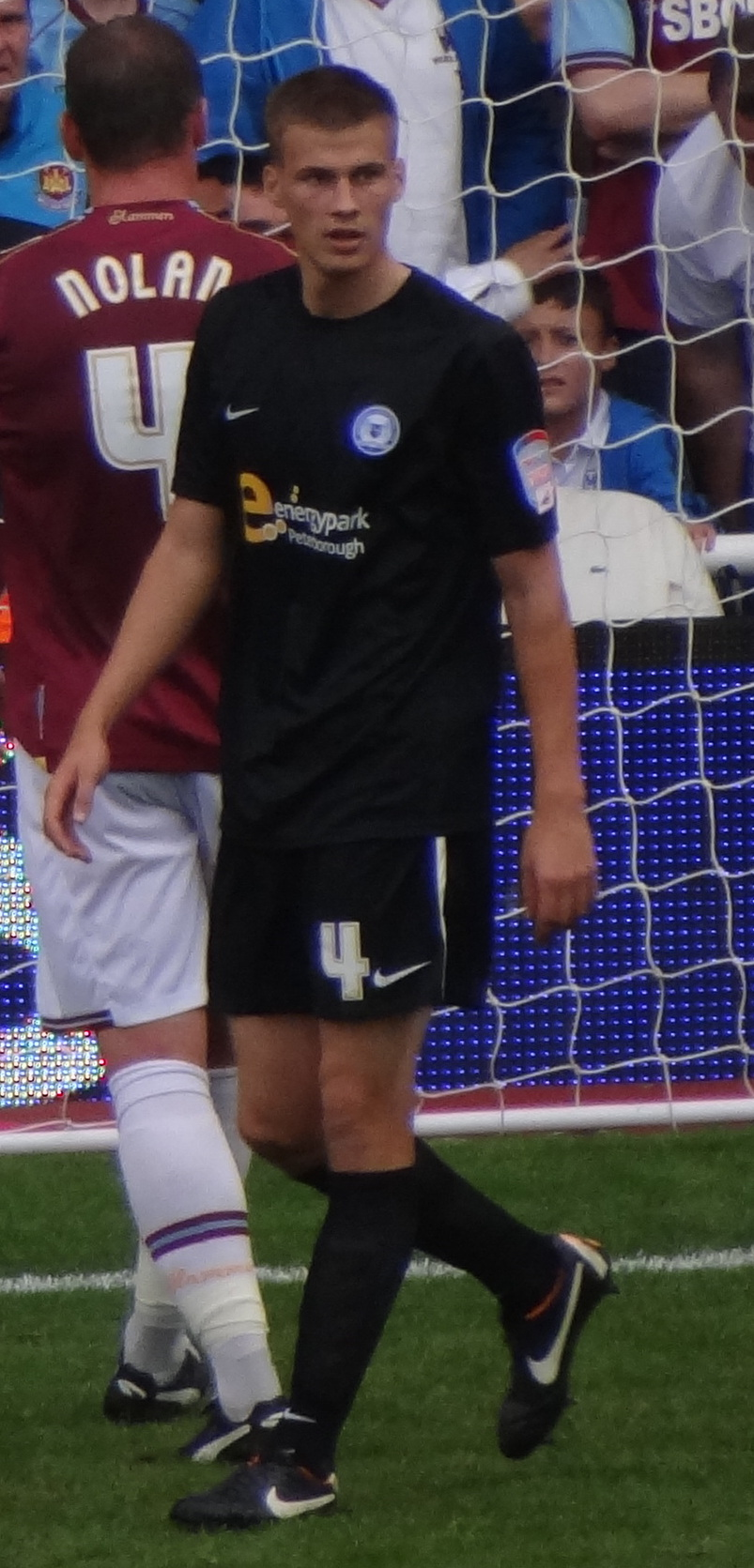 Ryan Bennett from West Ham vs Peterborough